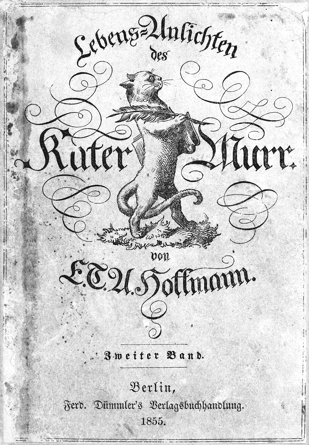 Book jacket with engraving of E. T. A. Hoffmann, Lebens-Ansichten des Katers Murr, third edition, Berlin 1855, volume 2. The title is nearly identical to that of the 1st edition; the jackets of both volumes are identical besides the caption “Erster Band.” and “Zweiter Band.” The engraving showing the learned tom cat Murr is based on an original design from Hoffmann. Hoffmann also gives a description of exactly this picture in his preface to the 1st volume.